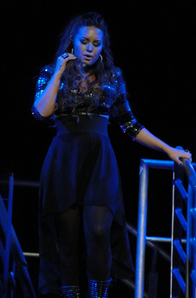 Demi Lovato performing "Got Dynamite" at Club Nokia in Los Angeles